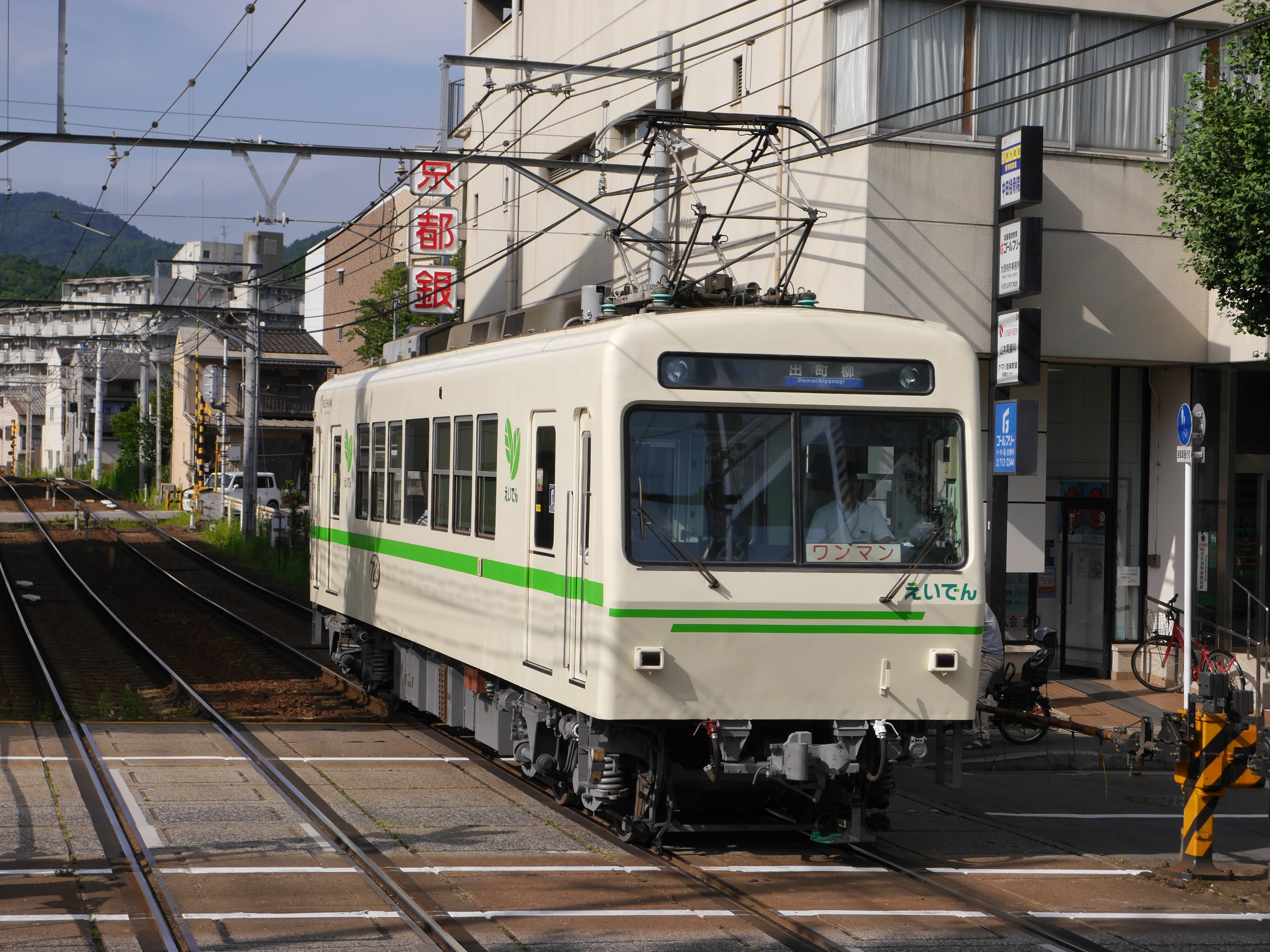 Eizan Electric Railway Deo 723 approaching Shugakuin station